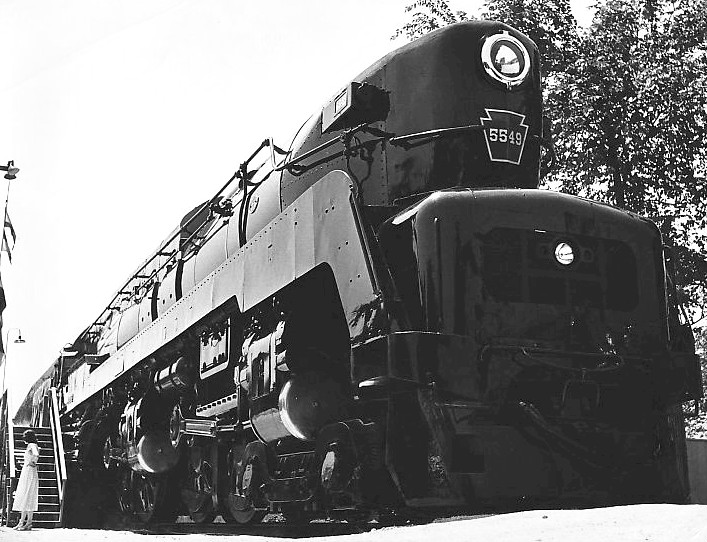 Photo of a Pennsylvania Railroad TR1 locomotive.